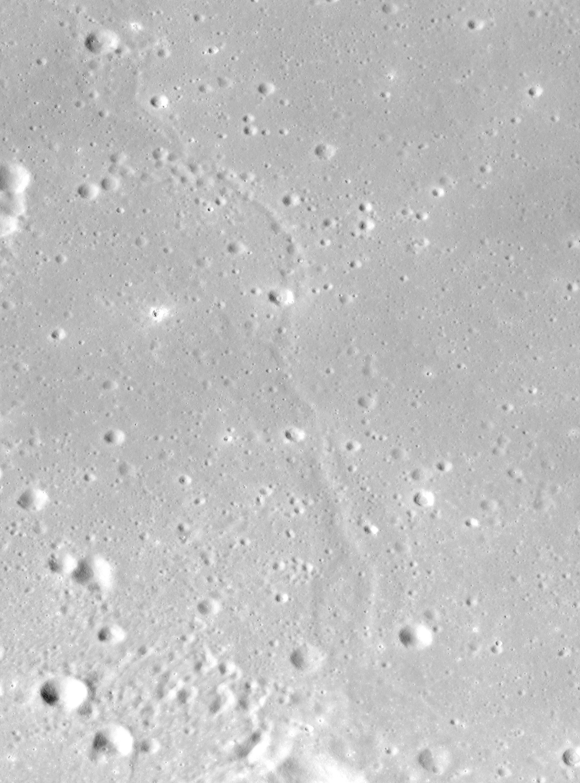 Oblique view of Rima Zahia, facing south, on the moon. Taken by Apollo 15 panoramic camera.